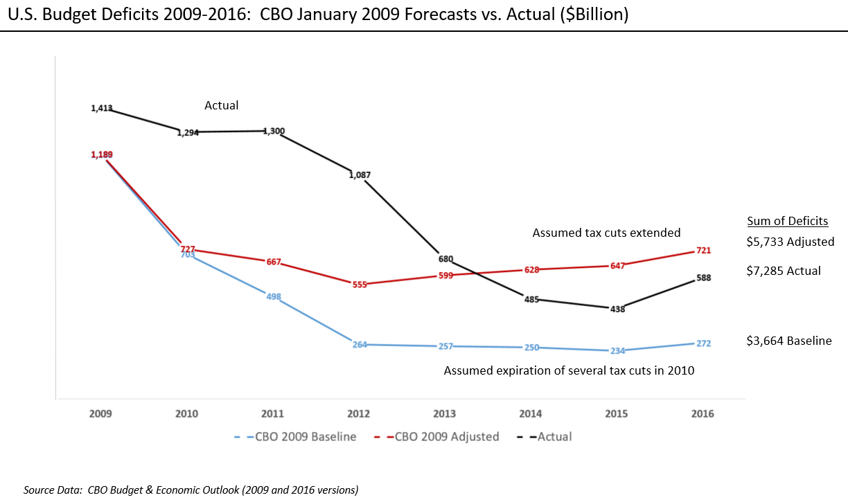 Image compares U.S. budget deficits forecast by CBO in 2009 under two scenarios and the actual budget deficits that occurred during the Obama administration.